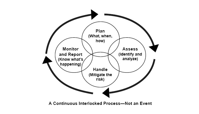 Image extracted from Systems Engineering Fundamentals. Defense Acquisition University Press, 2001